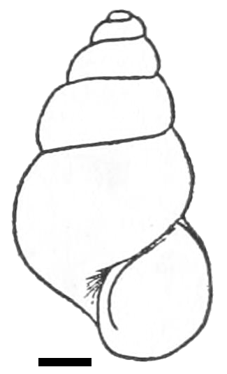 Template:Drawing of apertural view of a shell of Blanfordia simplex . The scale is 1 mm.